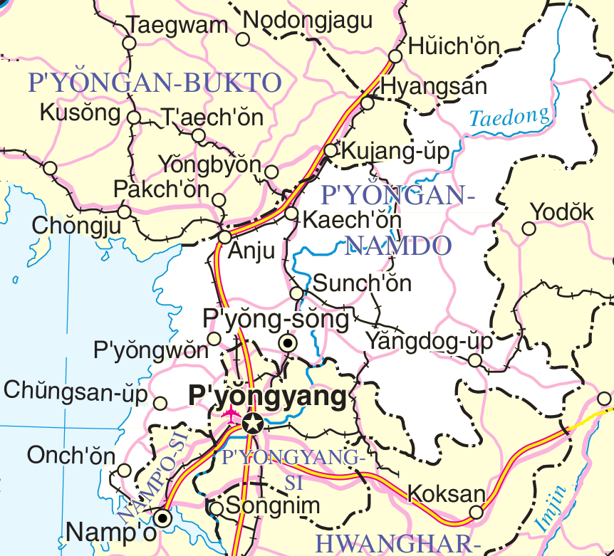 Map of Pyongan-Namdo, cropped from Un-north-korea.png